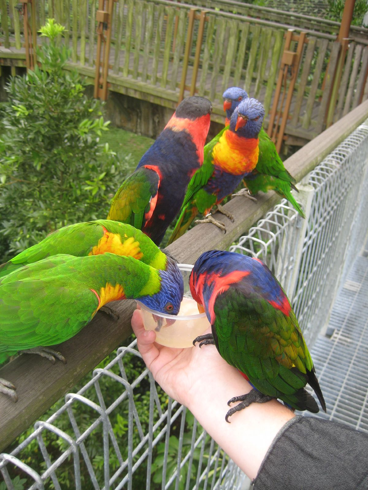 Four Rainbow Lorikeets (probably Trichoglossus haematodus moluccanus) and two Black-capped Lories (different subspecies of Lorius lory) drinking nectar at Jurong Bird Park (mouse over image to see notes for identification of individual parrots).